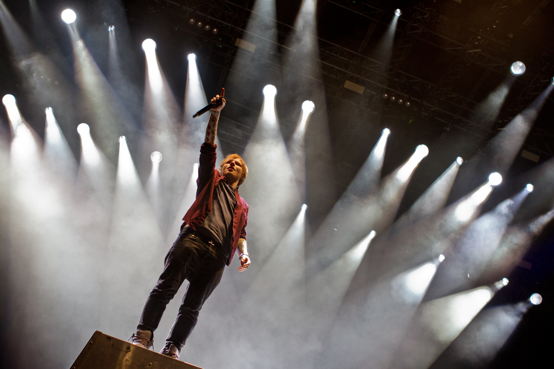 Edward Christopher „Ed“ Sheeran at Southside Festival 2014 in Neuhausen ob Eck